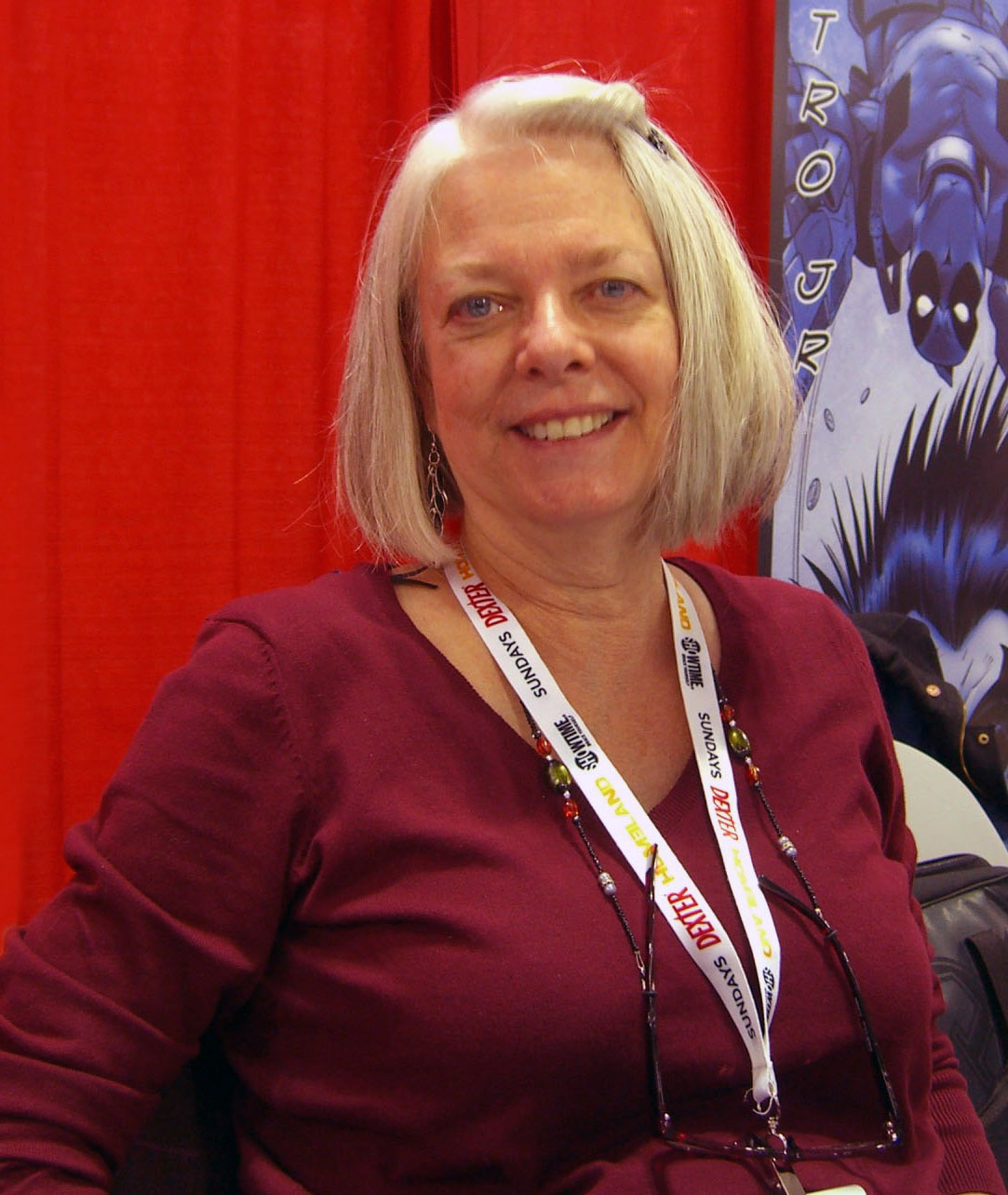 Comics creator Louise Simonson on Day 3 of the 2012 New York Comic Con, Saturday October 13, 2012 at the Jacob K. Javits Convention Center in Manhattan. This photo was created by Luigi Novi. It is not in the public domain, and use of this file outside of the licensing terms is a copyright violation.